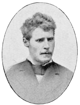 Image scanned from the book "Svenskt Porträttgalleri XX - Arkitekter, Bildhuggare, Målare m.fl. " ("Swedish Portrait Gallery XX - Architects, Sculptors, Painters, ") published 1901